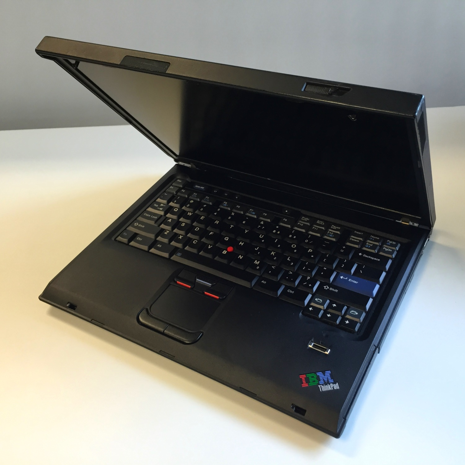 The T43p with the lid opened exposing the keyboard